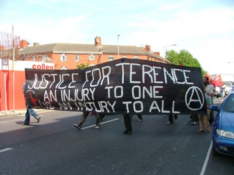 A row of protesters parading through a street holding a large black banner reading "JUSTICE FOR TERENCE / AN INJURY TO ONE / IS AN INJURY TO ALL" in white, with a black-and-red anarcho-syndicalist star on its right and a white circle-A on its left. Terence is a reference to Terence Wheelock, the location is Dublin, Ireland